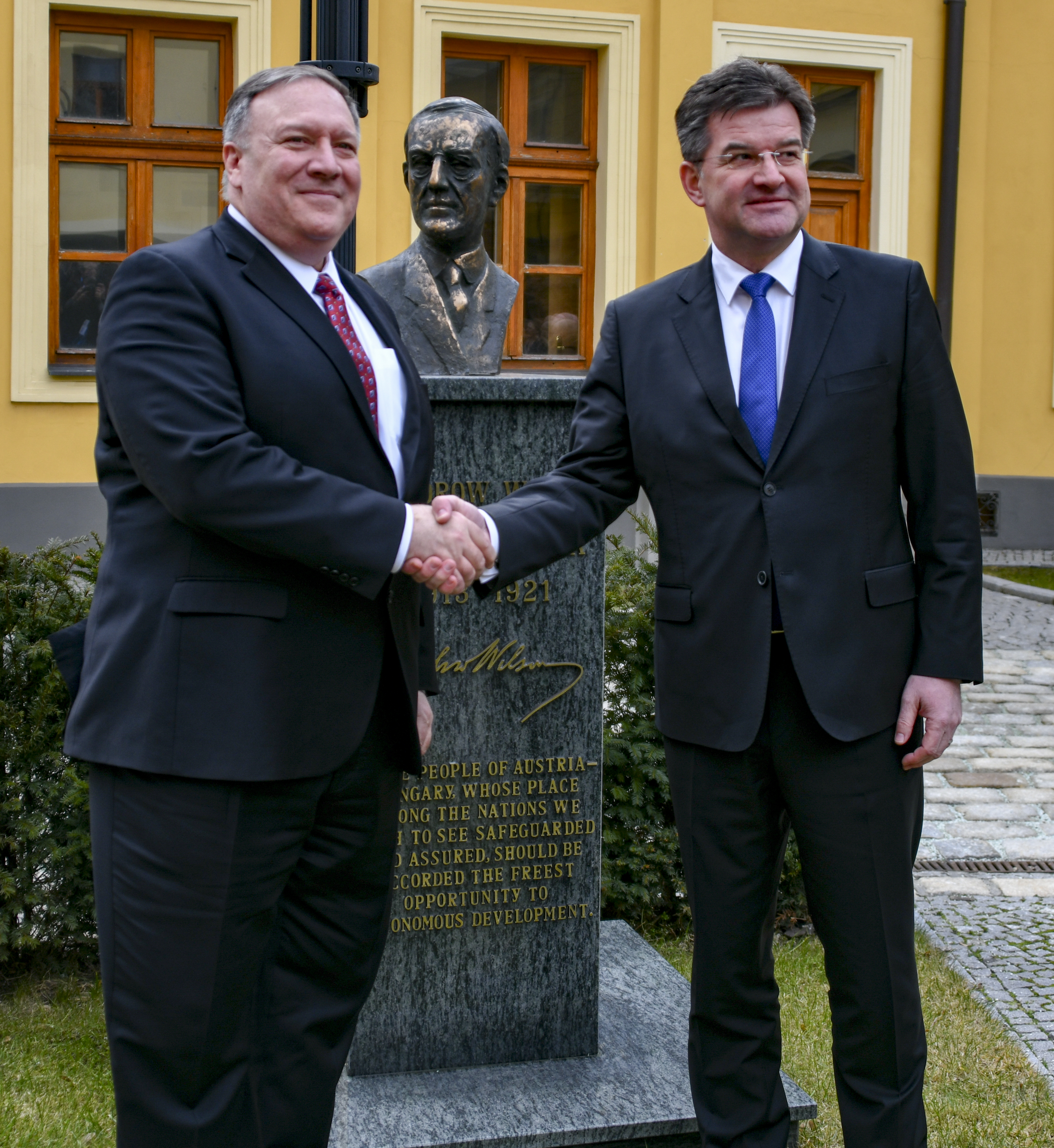 U.S. Secretary of State Michael R. Pompeo meets with Slovak Foreign Minister Miroslav Lajcak in Bratislava, Slovakia, on February 12, 2019. [State Department photo by Ron Przysucha/ Public Domain]